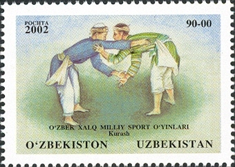 Stamps of Uzbekistan, 2002